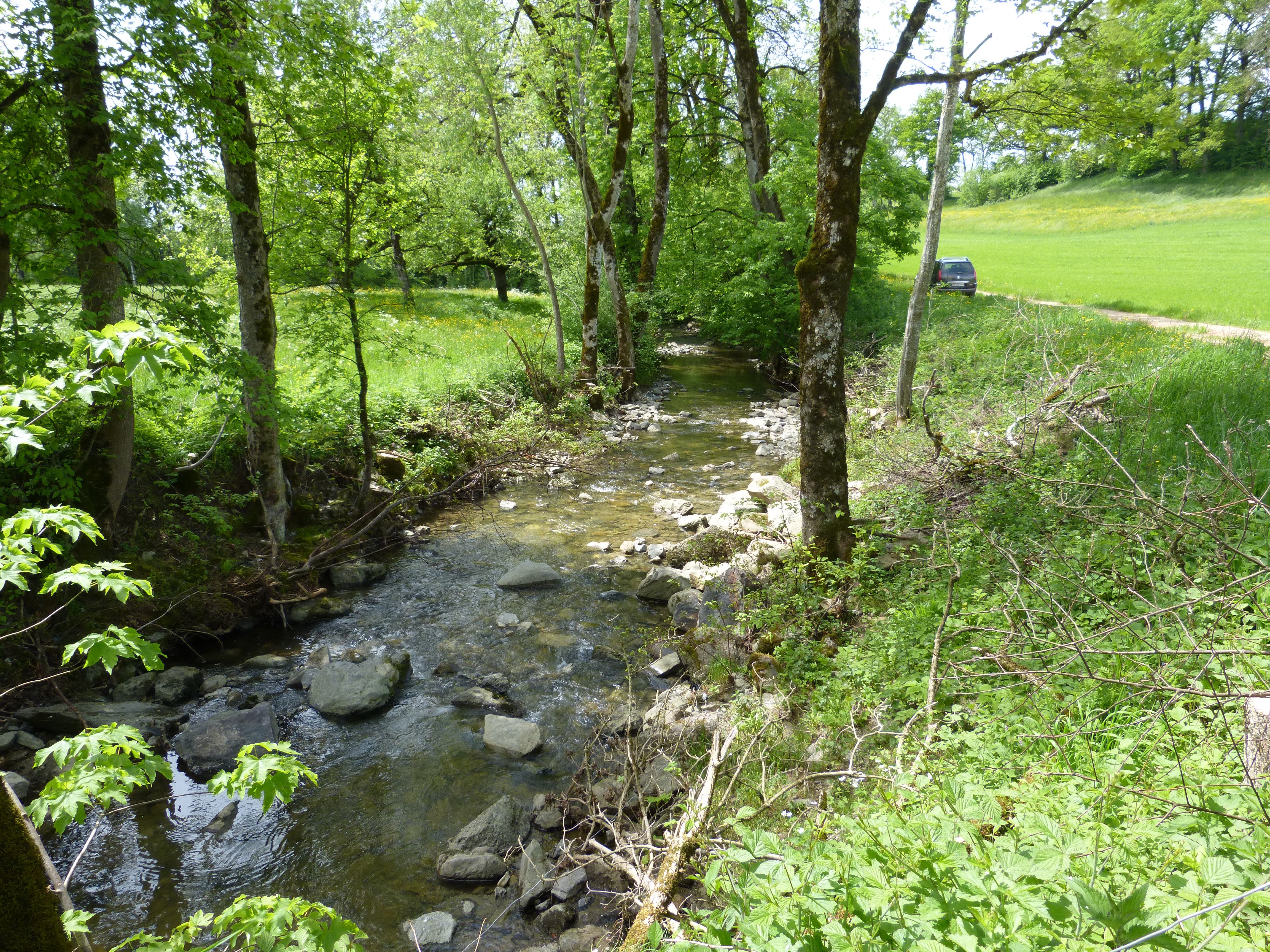 River Mionne at the place "Moulin de Villard" at Saint-Martin. View downstream of the bridge.